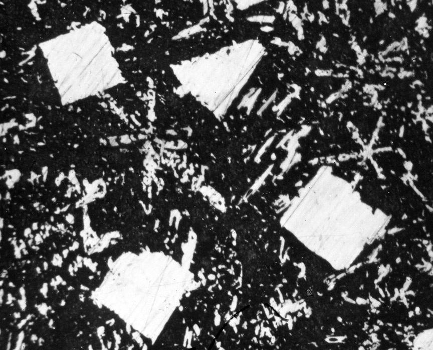 This is microstructure of bearing alloy babbit, which consists of (10 —12) % Sb; (5,5 —6,5) % Cu, remains Sn.